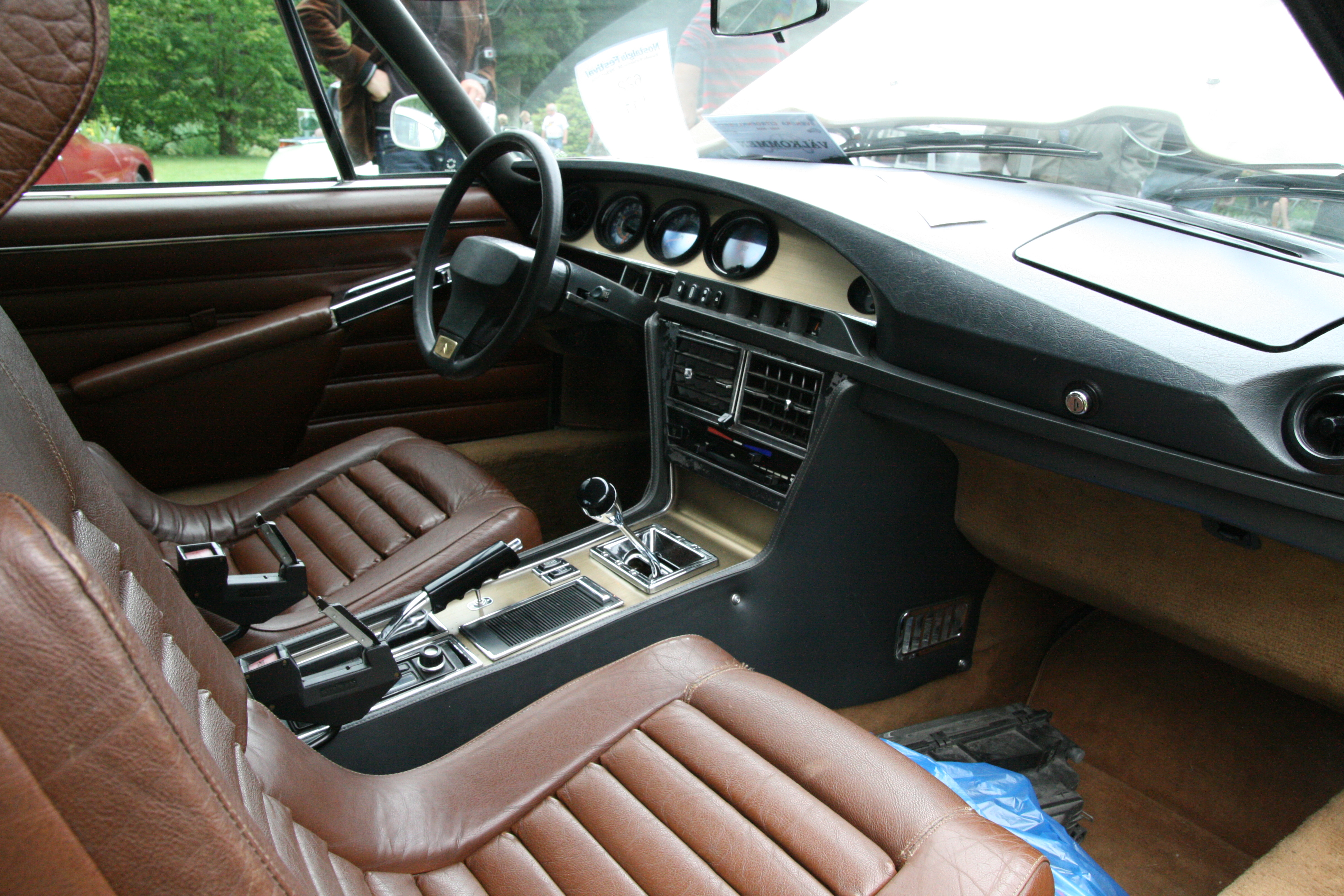 The interior of a Citroën SM, featuring brown leather upholstery and a black fascia. Vehicle photographed at the Nostalgia Festival auto show in Ronneby, Sweden.